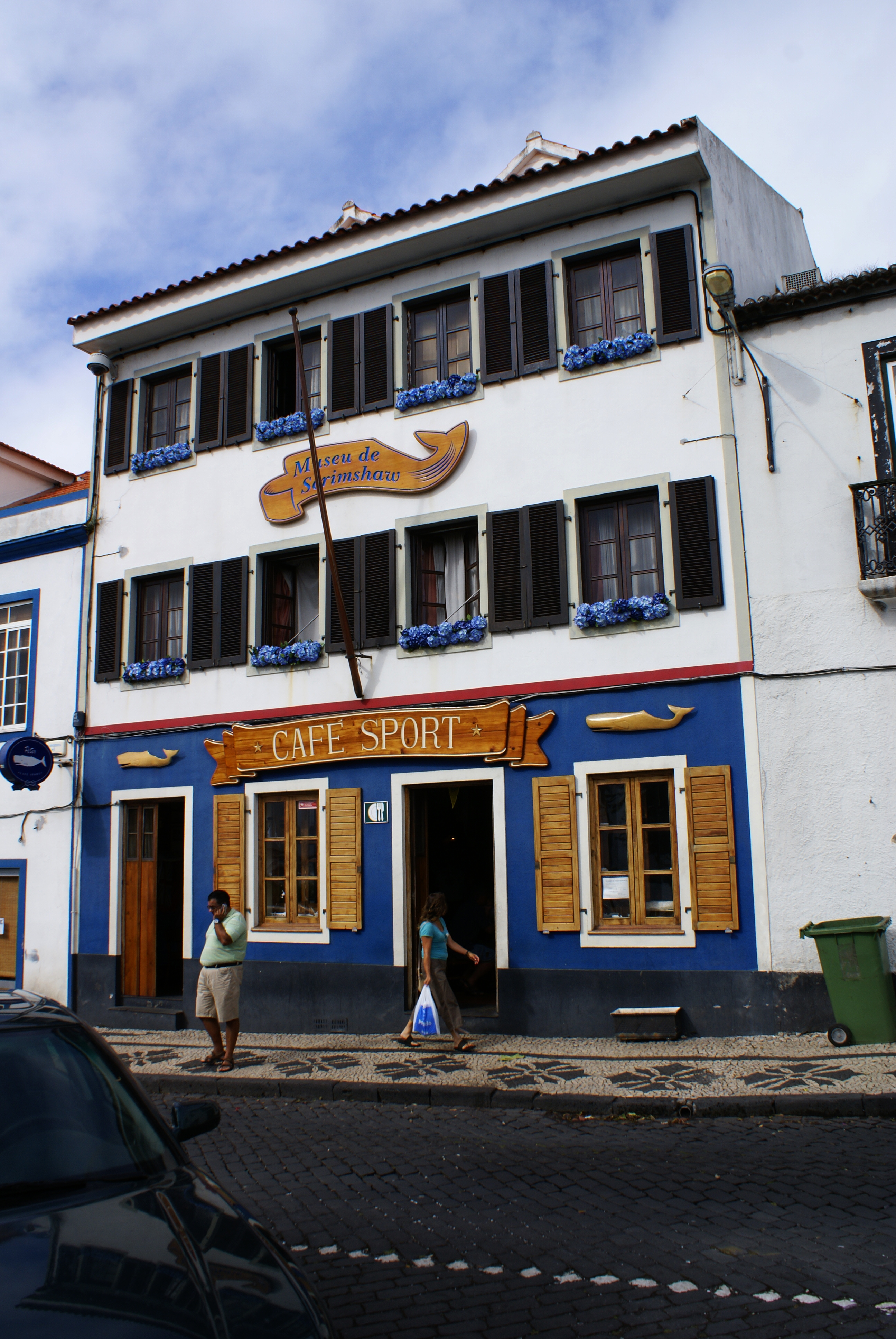 The front façade of Peter's Café Sport, Horta, Faial (Azores), Portugal